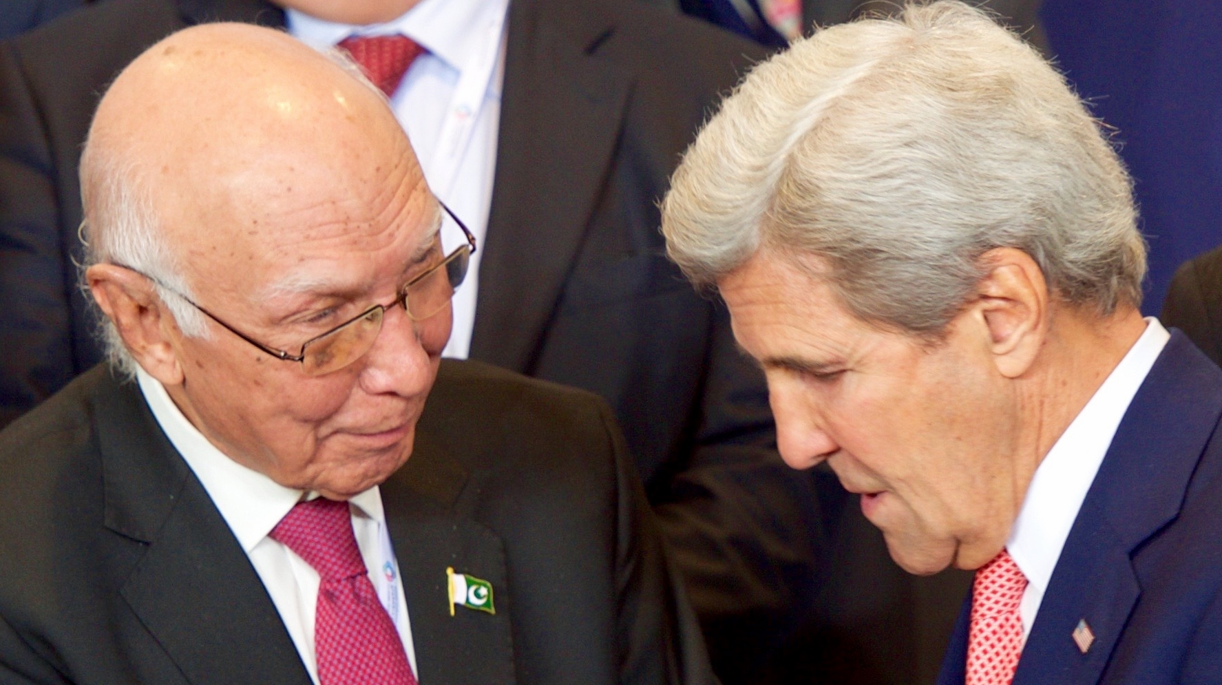 U.S. Secretary of State John Kerry greets Pakistan National Security Adviser Sartaj Aziz on October 5, 2016, at the European Commission's Justus Lipsius Building in Brussels, Belgium, before a group photo of attendees at an international Afghan pledging conference. [State Department photo/ Public Domain]